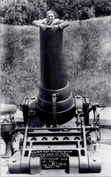 American stunt pilot Art Smith preparing to be shot out of a cannon